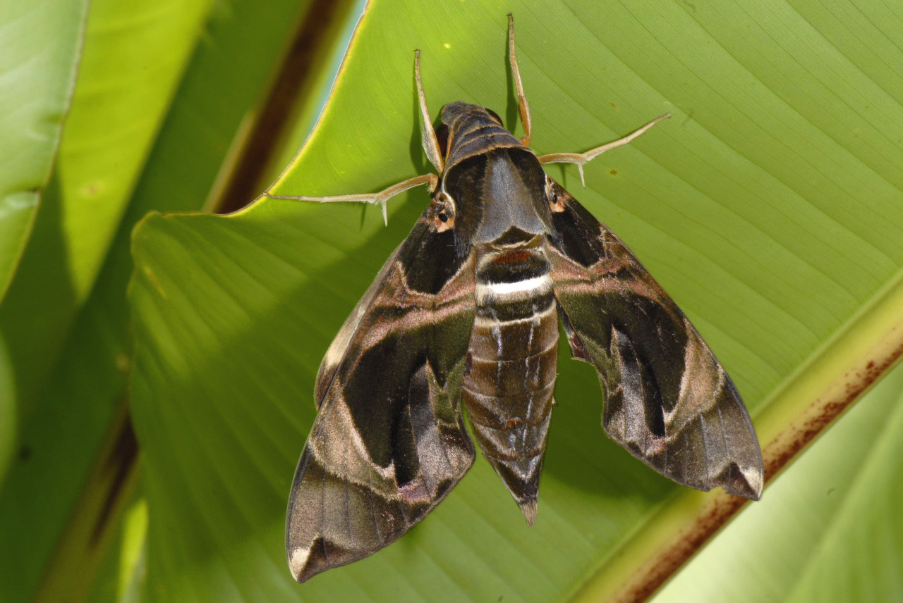 Daphnis hypothous - Location: Borneo